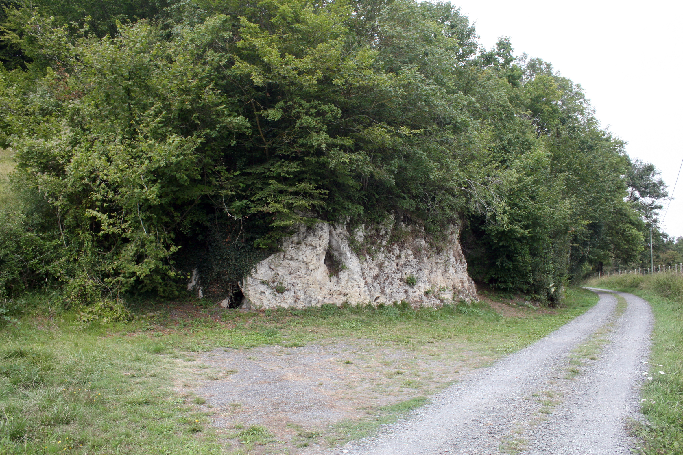 La Grotte des Fées archaeological site (Allier, France), type site of Châtelperronian culture